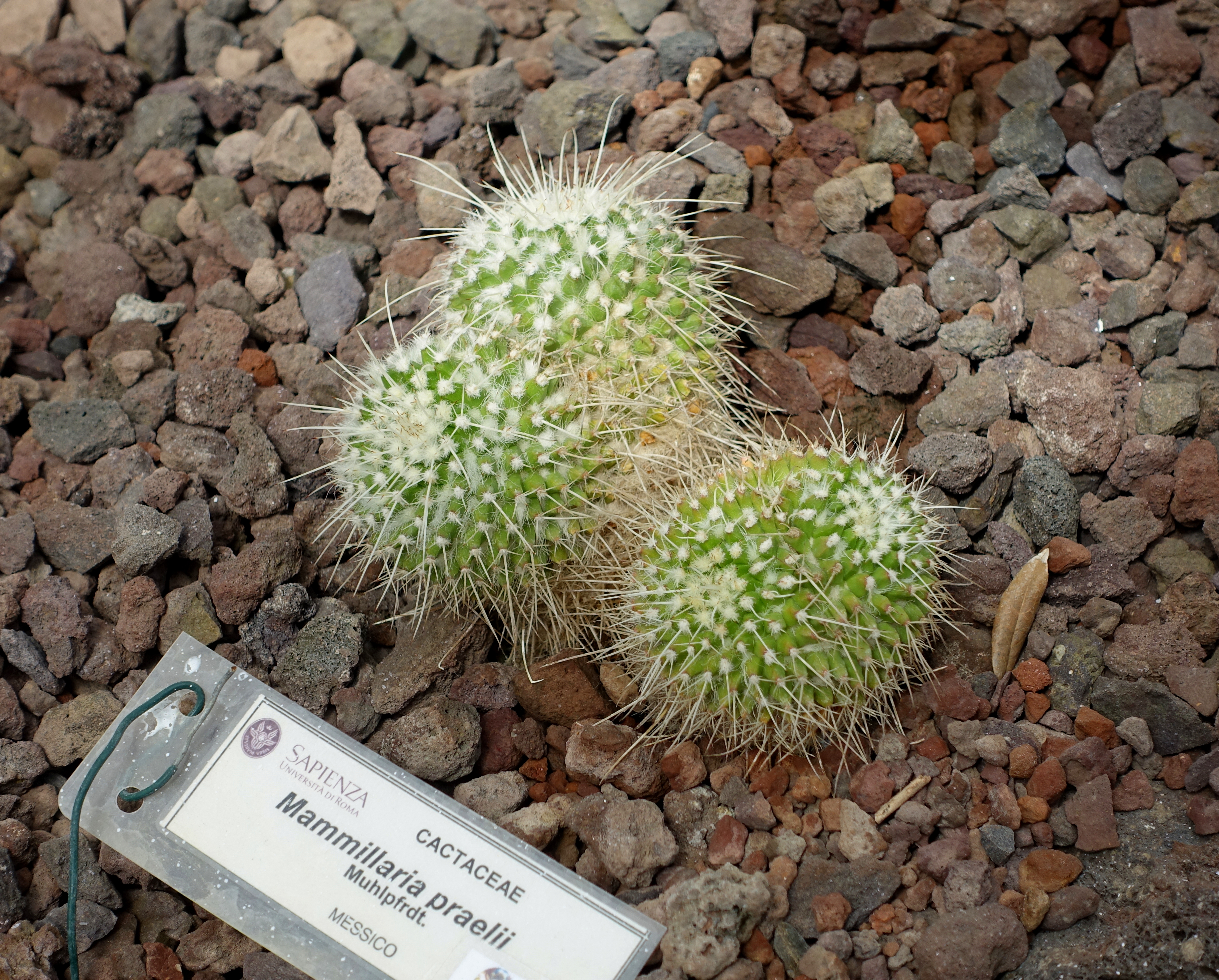 Botanical specimen in the Orto botanico - Rome, Italy.